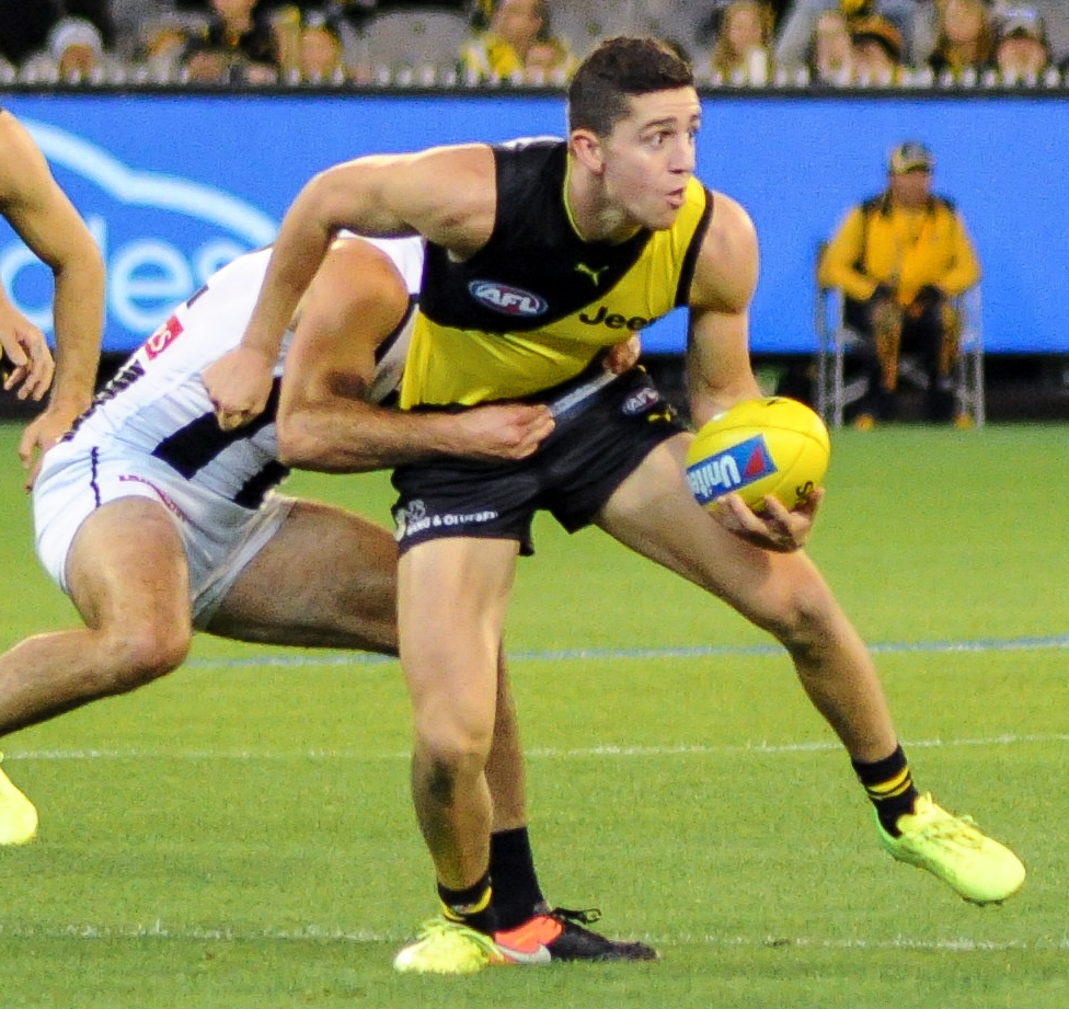 Jason Castagna handballing during the AFL round two match between Richmond and Collingwood on 30 March 2017 at the Melbourne Cricket Ground in Melbourne, Victoria.